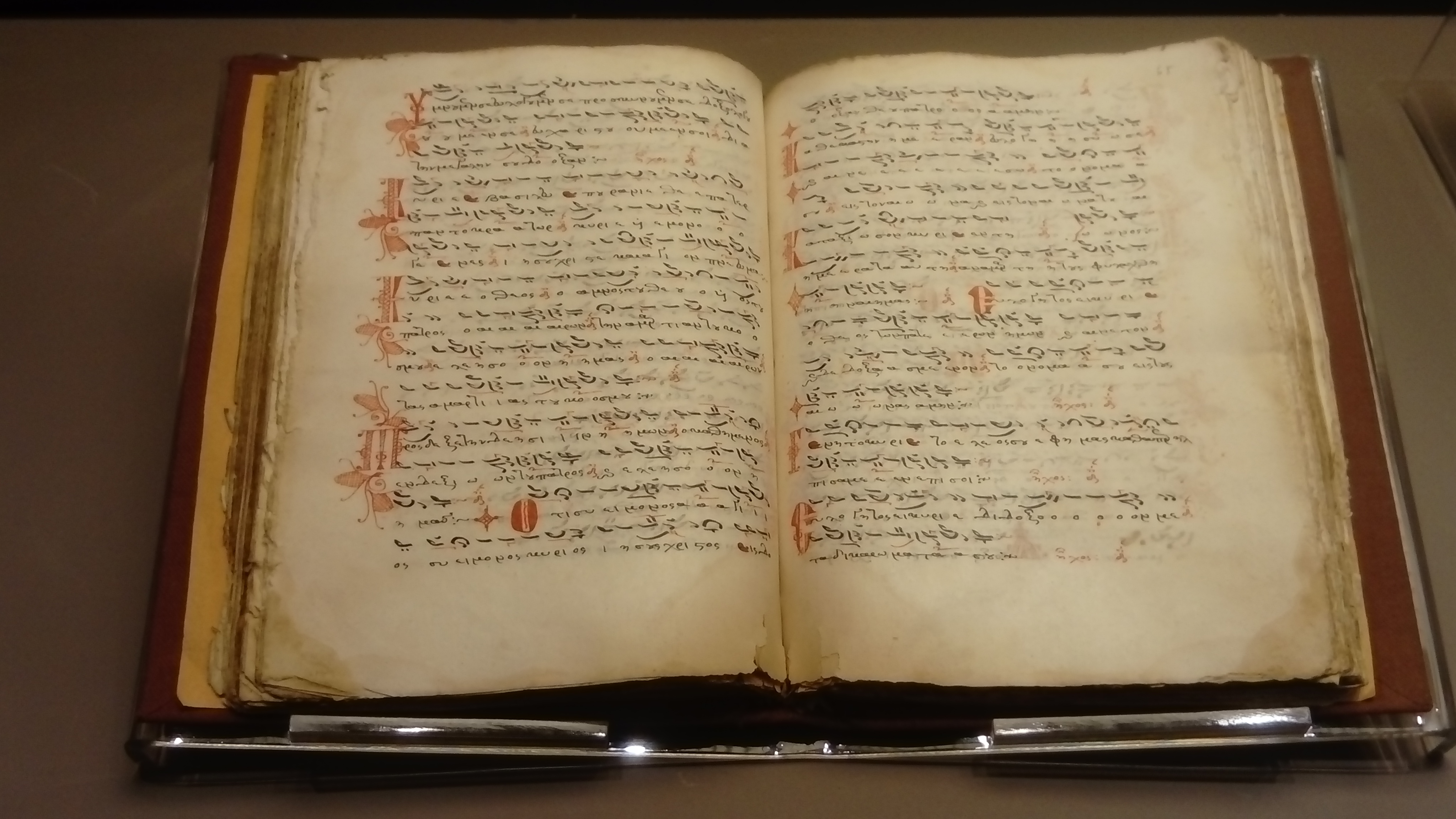 Music manuscript kept and exhibited in the museum part of the restored Arkadi monastery in Crete.